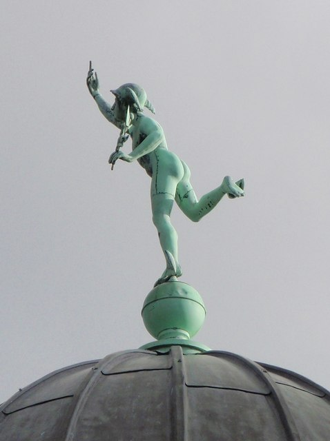 Mercury, Torquay Pavilion. The Roman messenger god, also responsible for a variety of other realms, commerce, mischief, travelling, music, fertility and eloquence among them, appears to be telling the world what he thinks of it in eloquent style. He is one of a copper pair on twin domes on either side of 1199448